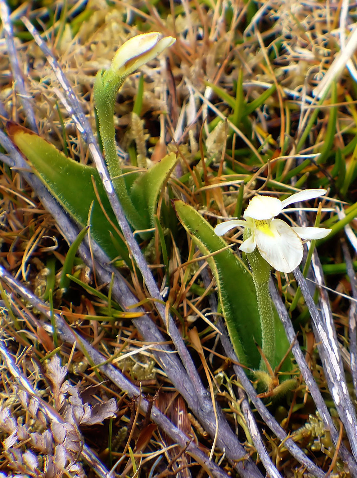 Aporostylis bifolia. Despite the cool climate, little orchids grow in some of the more open grassland spots.